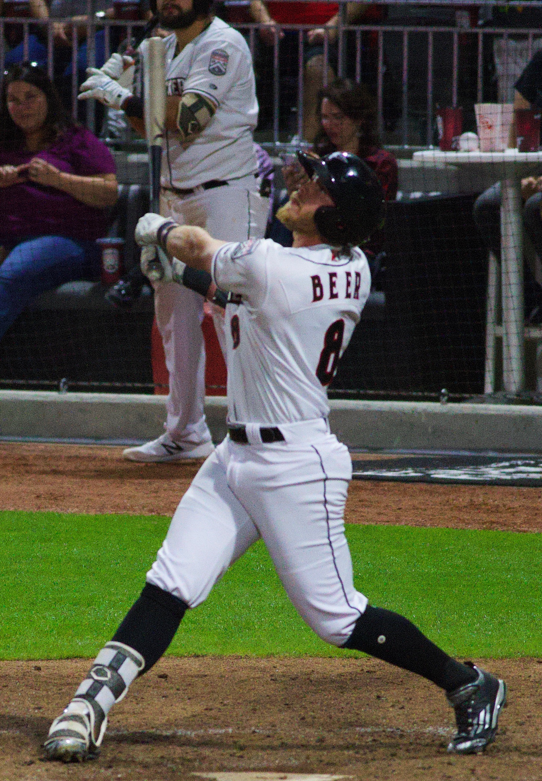 Seth Beer bats for the Fayetteville Woodpeckers during the first ever game at Segra Stadium in April 2019.